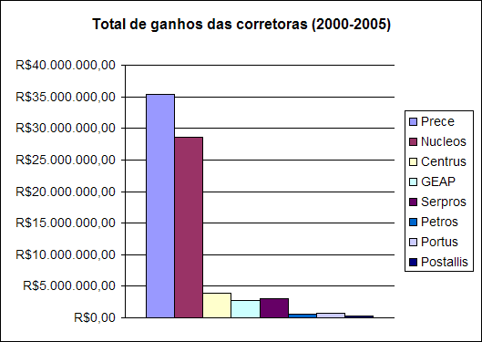 Total earnings of brokerages (2000-2005)